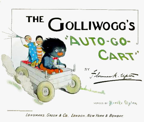 Cover of The Golliwogg's "Auto-Go-Cart" by Bertha and Florence Kate Upton.